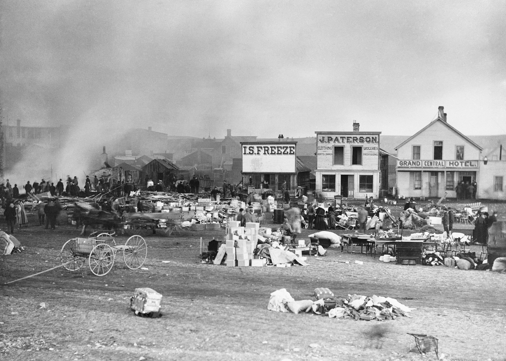 Big fire on 9th Avenue, Calgary, Alberta, between Centre Street and 1st Street SE. I.S. Freeze, J. Paterson, and Grand Central Hotel buildings in middleground. Contents of various buildings piled in foreground.